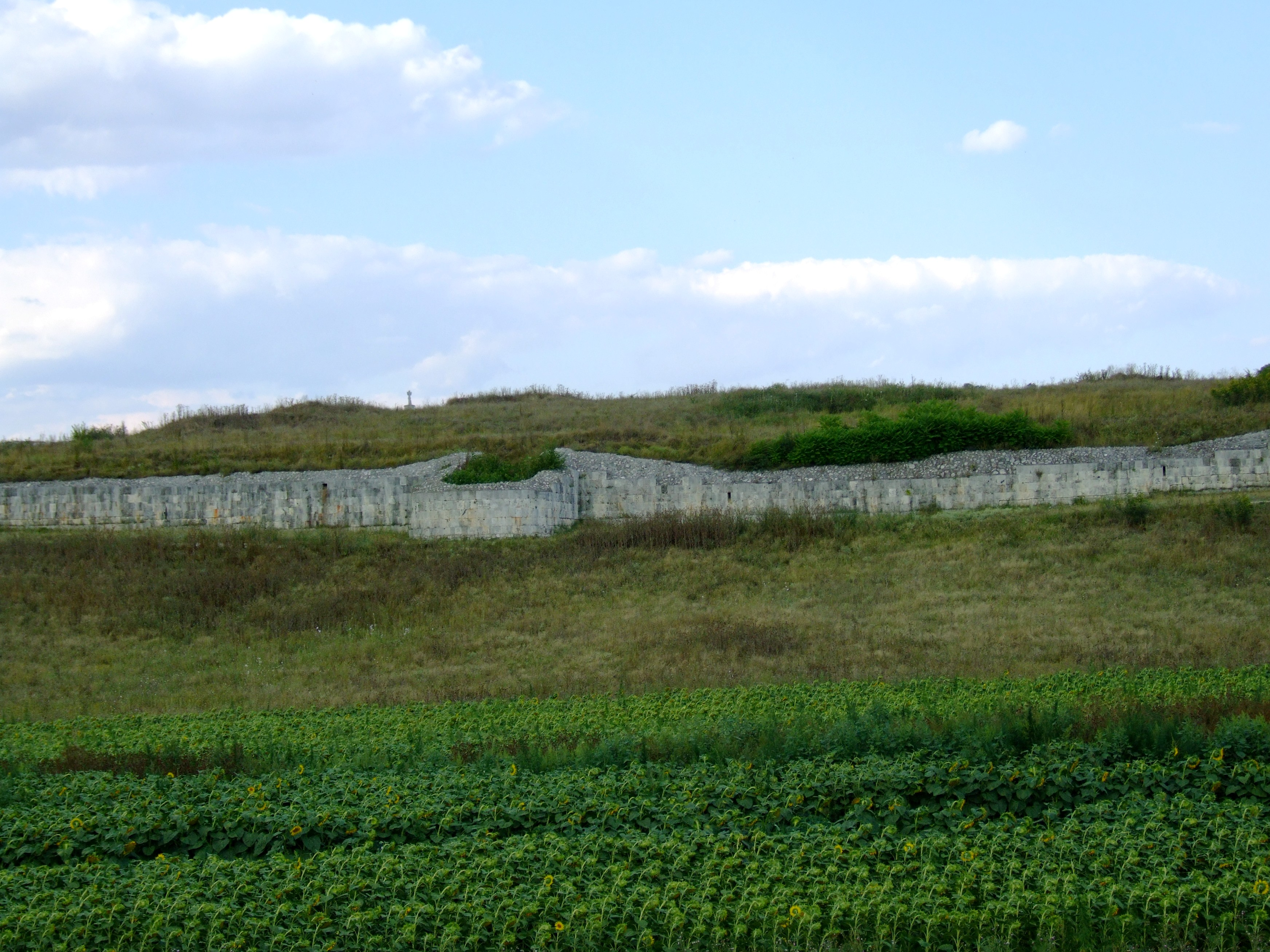 City Wall of ancient city of Tropaeum Traiani